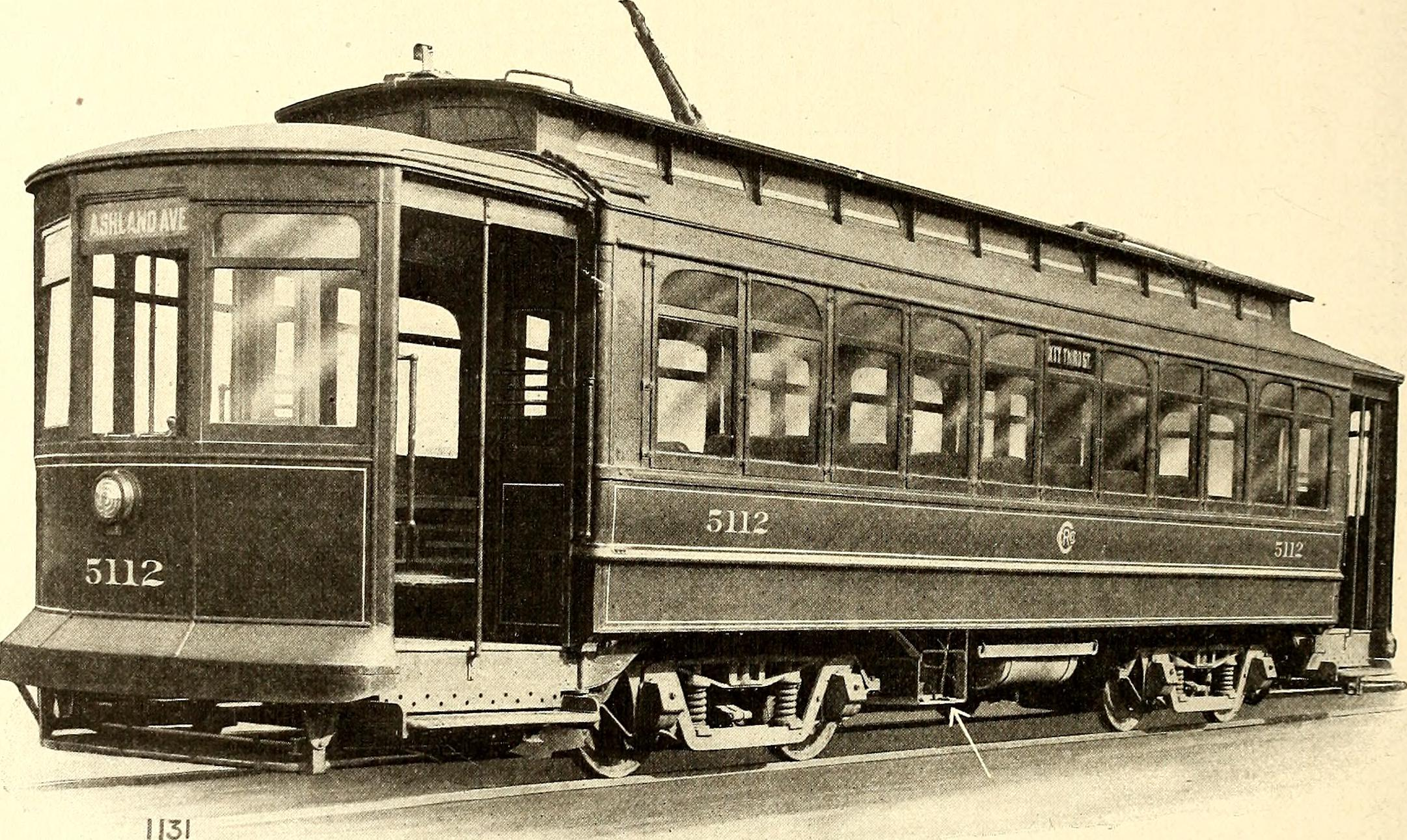 Title: The Street railway journal Year: 1884 (1880s) Authors: Subjects: Street-railroads Electric railroads Transportation Publisher: New York : McGraw Pub. Co. Text Appearing Before Image: In Daily Service on 16,000 Electric Railway Cars Text Appearing After Image: FIVE HUNDRED CHICAGO CITY RAILWAY CO.S CARS, LIKE ABOVE, ARE EQUIPPED WITH CHRISTENSEN AIR BRAKES Write for our Bulletins